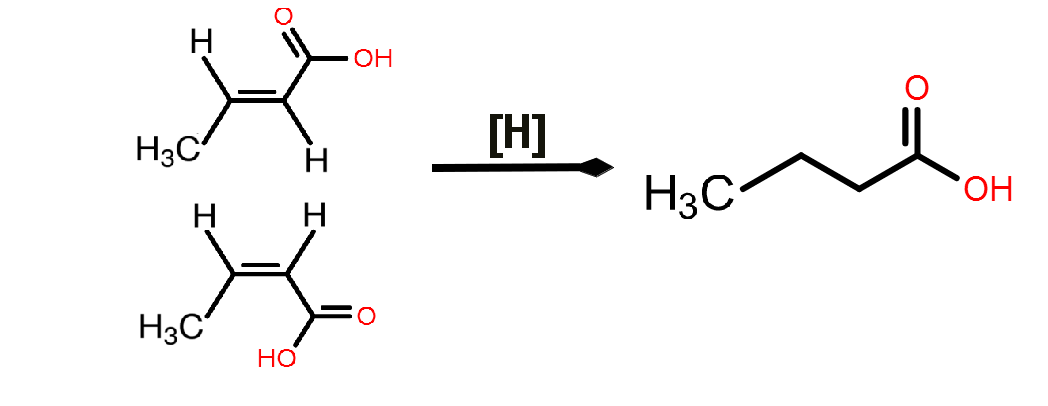 Butyric acid synthesis from crotonic acid hidrogenation